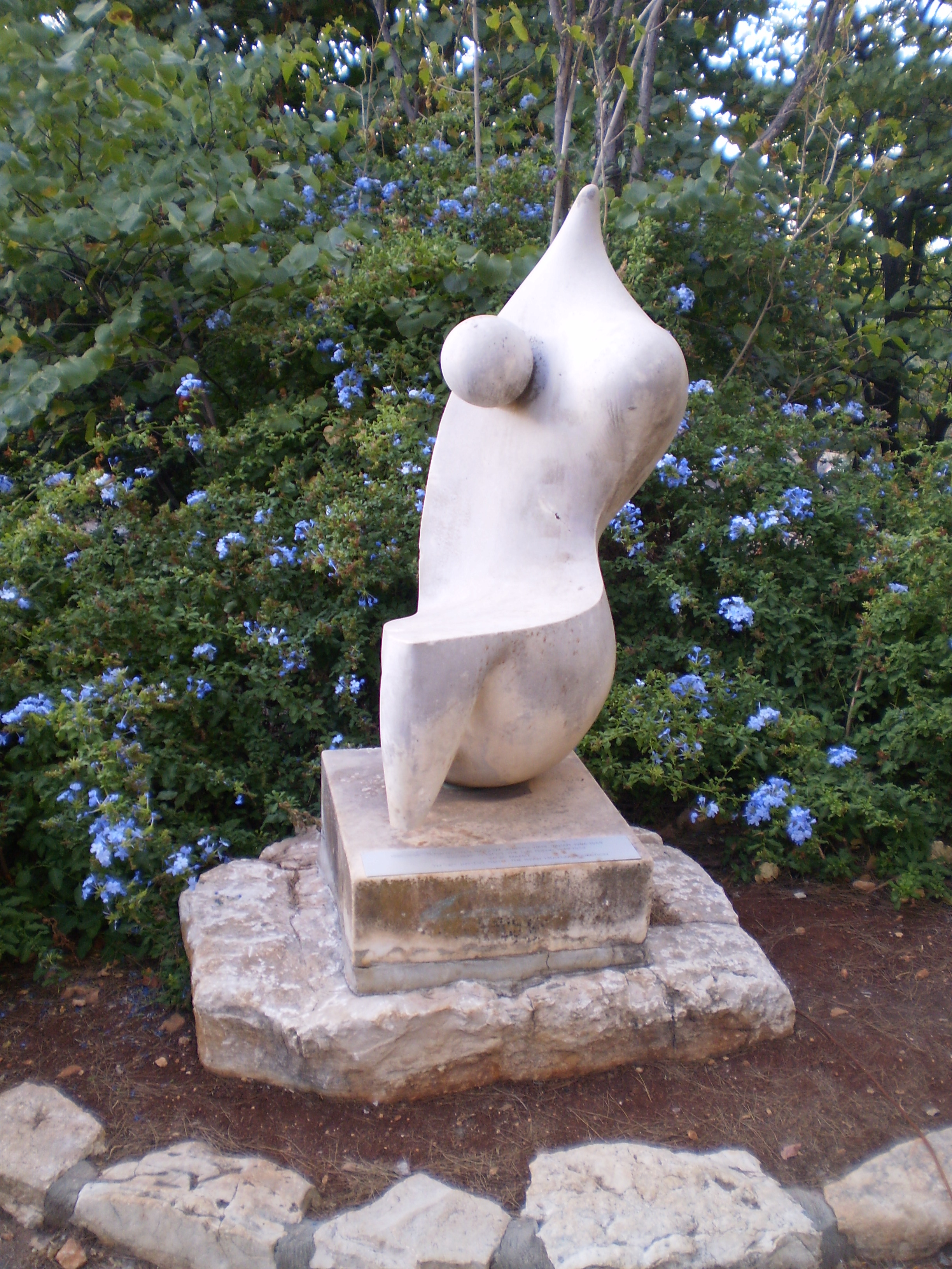 The Girl Friend, by Alberto Viani, 1949-1953, at Amirim sculpture garden, Israel